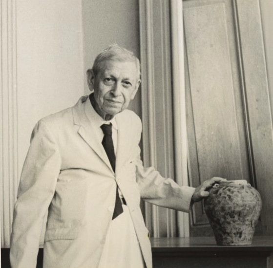 Portrait of Henry Otley Beyer, standing with hand on ceramic pot [picture] [between 1906-1918] 1 photograph : b&w ; 20.0 x 20.2 cm. Part of: Otley Beyer collection of photographs, No.33. Condition: Good. Title devised by cataloguer based inscription on inscription card.